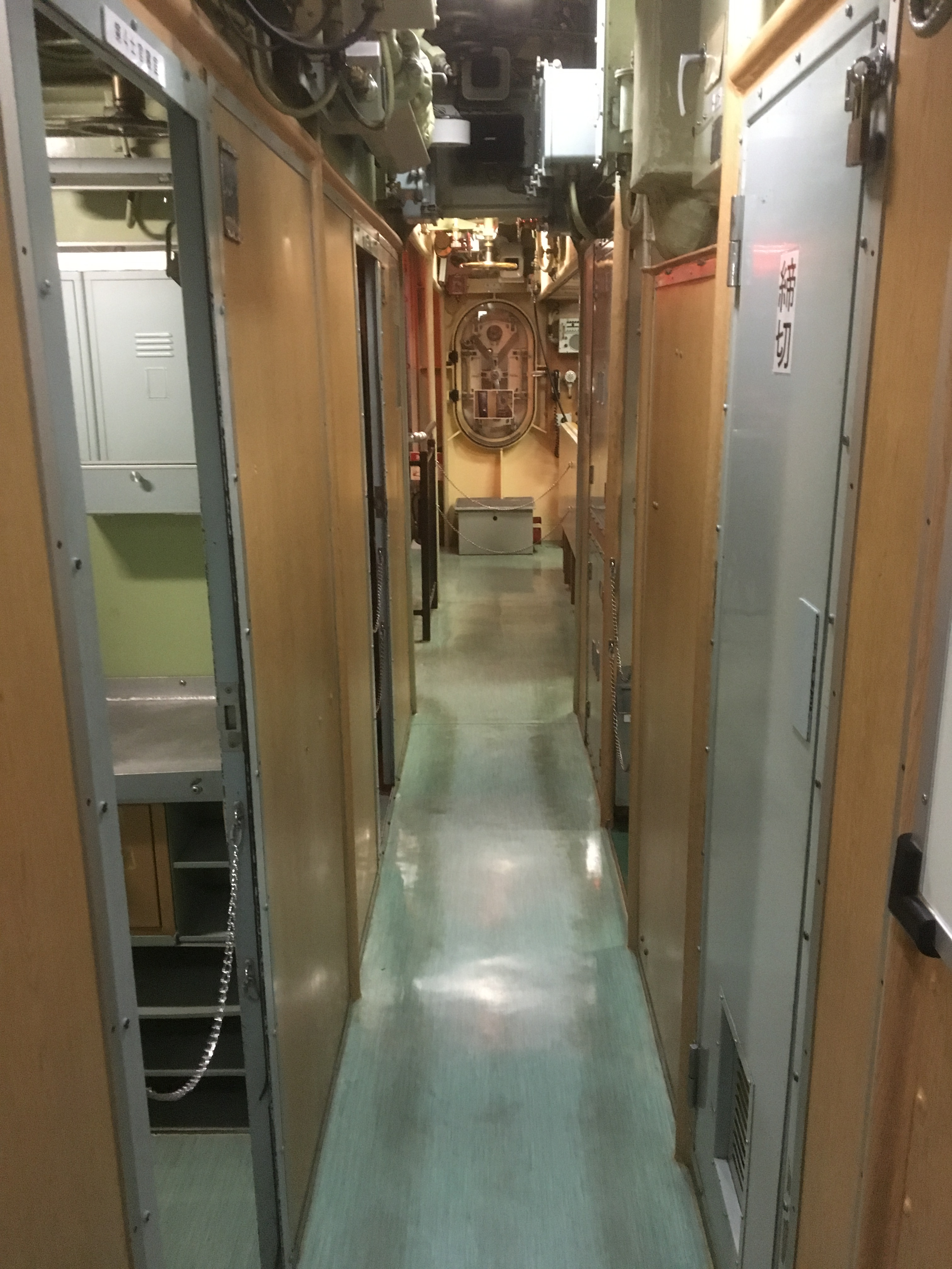 JMSDF Kure Museum-JS Akishio_SS-579 JAPAN / Yushio-class submarine